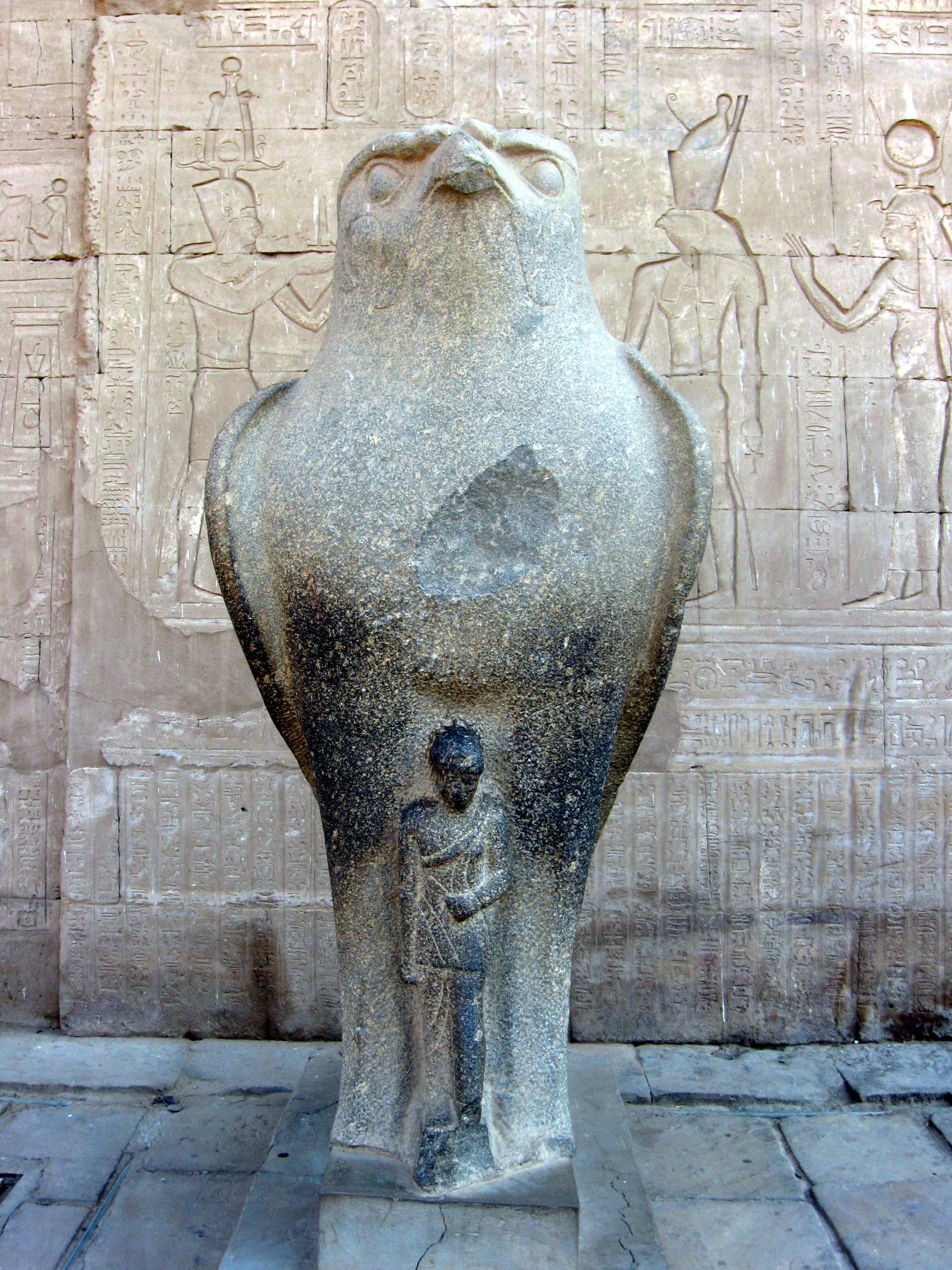 A granite statue of the falcon god Horus at the Temple of Horus in Edfu, Egypt. In front of Horus stands a miniature depiction of Caesarion (Ptolemy XV), son of Cleopatra VII of Ptolemaic Egypt. Source: *Fletcher, Joann (2008) Cleopatra the Great: The Woman Behind the Legend, New York: Harper, ISBN 978-0-06-058558-7, pages 219, image plates and caption between 246–247